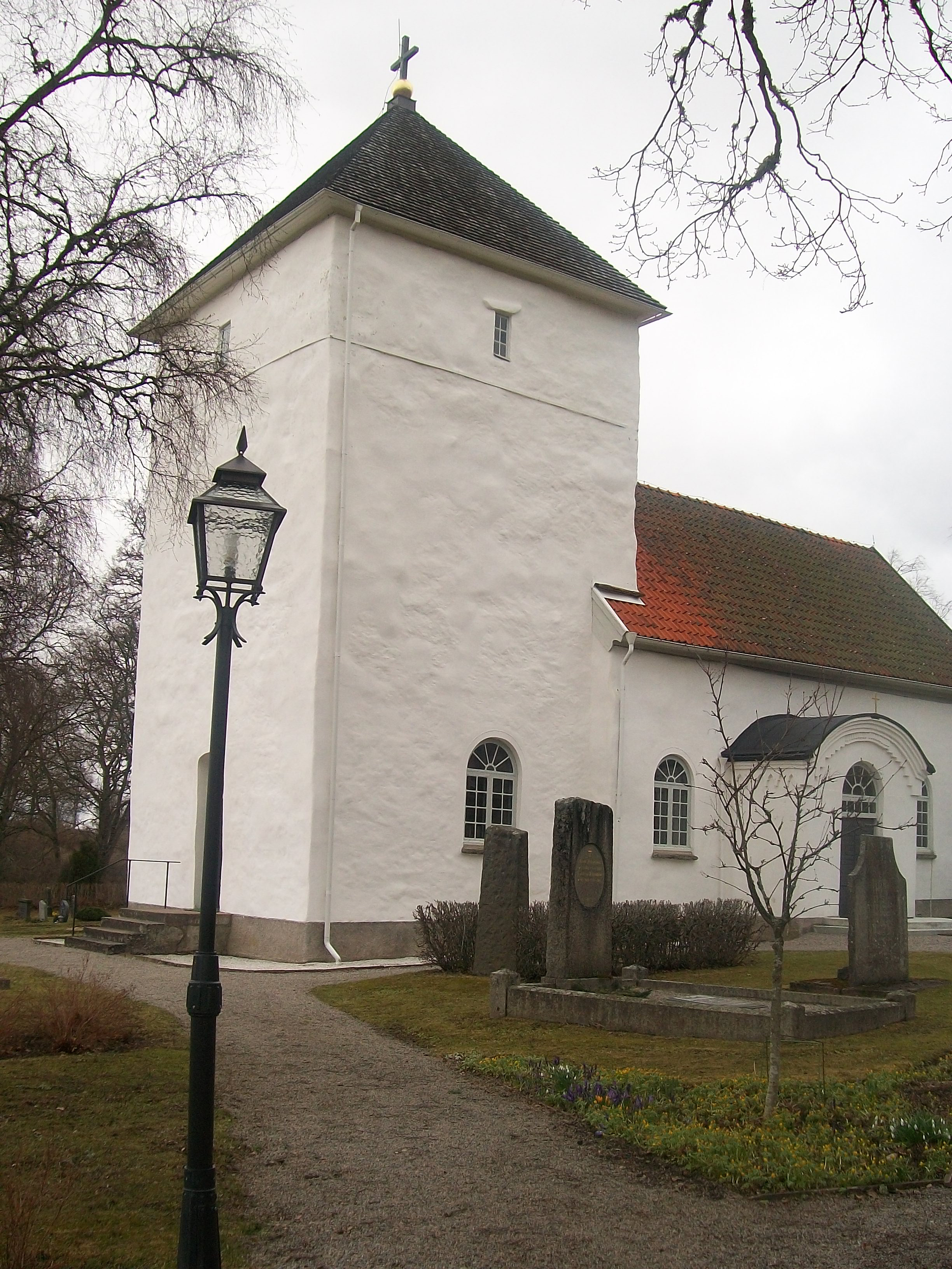 Dalum church